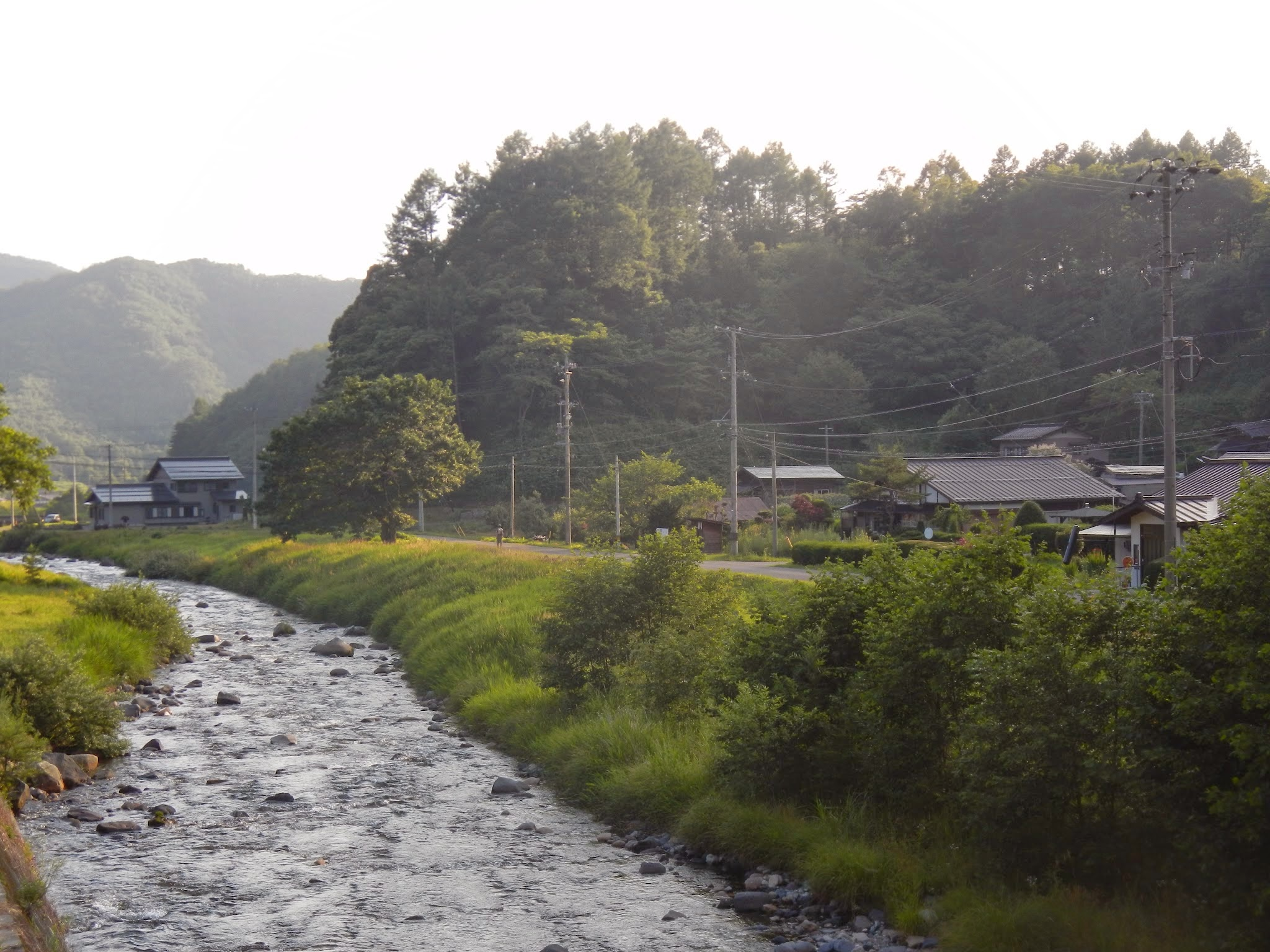 Kaidakogen Suekawa, Kiso, Kiso District, Nagano Prefecture 397-0301, Japan